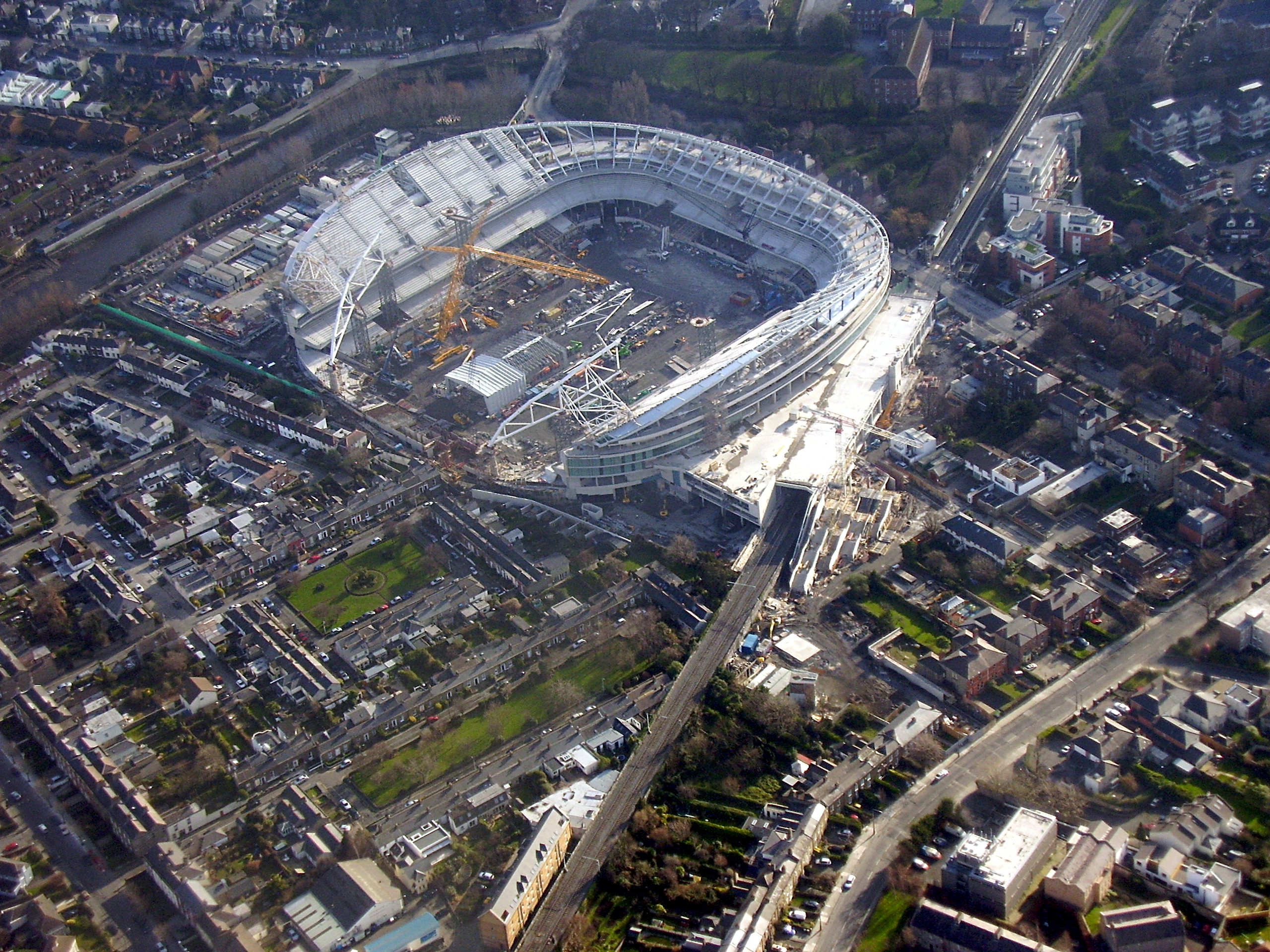 Aviva Stadium under construction